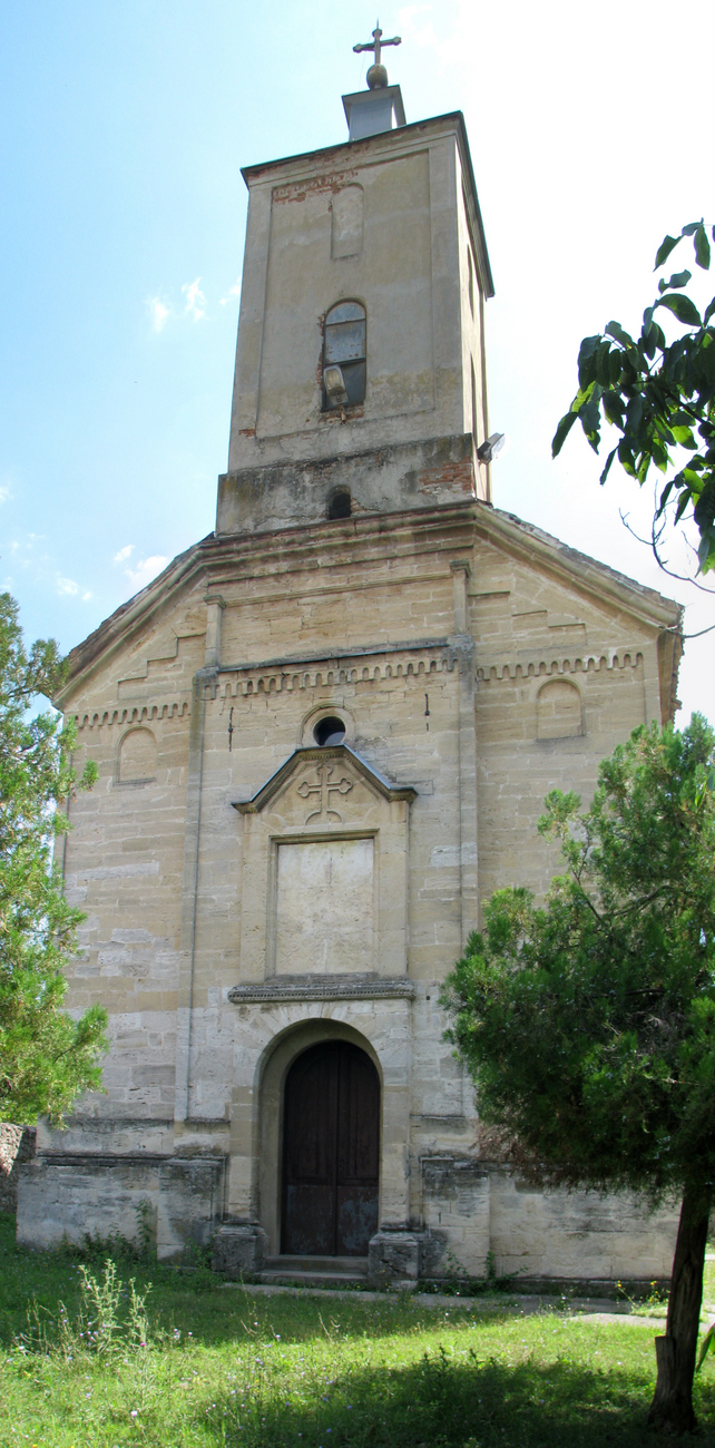 Church Vaznesenja Gospodnjeg, Rajac, Serbia